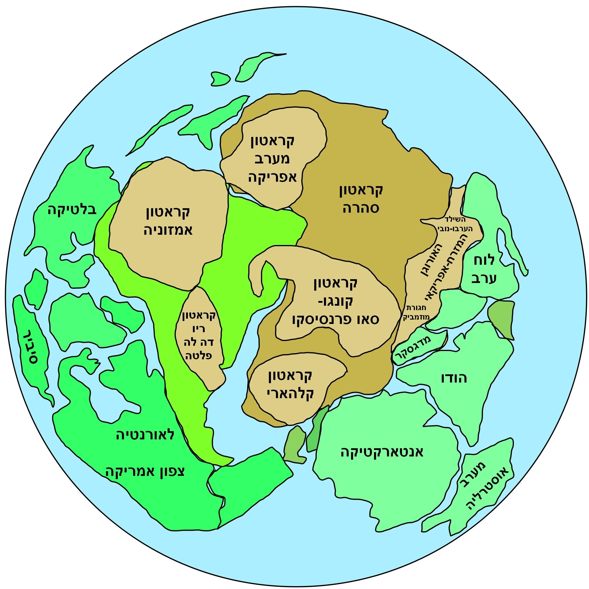 Pannotia super-continent, showing platons, hypothetical sketch map